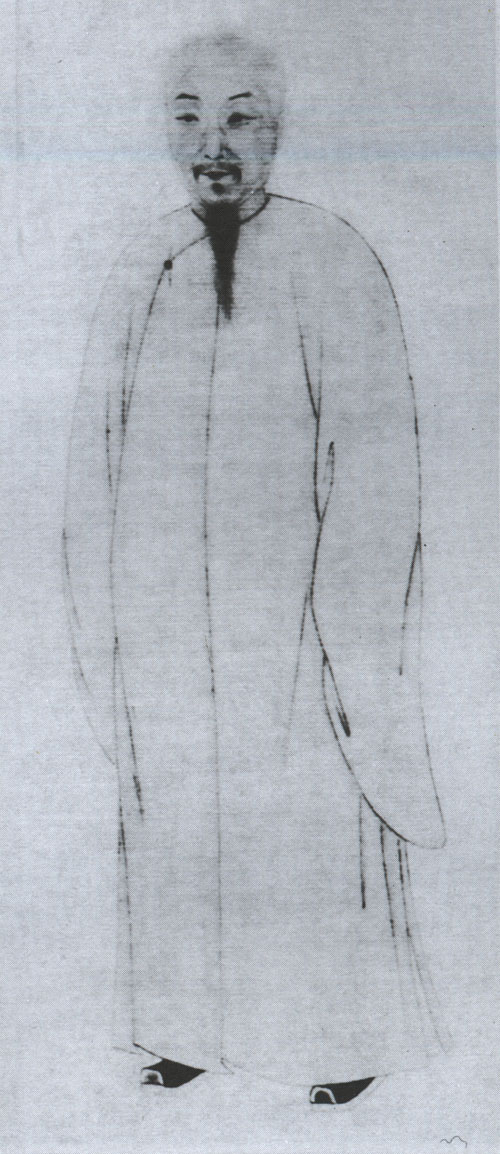 JIANG Shiquan, poet and scholar of the Qing Dynasty.